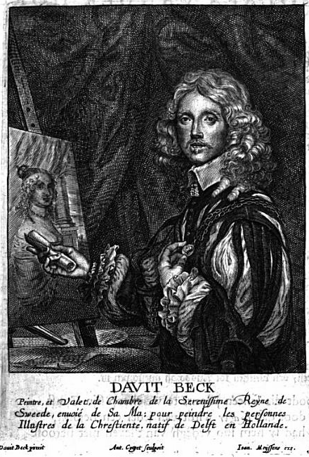 Portrait of David Beck in Cornelis de Bie's Gulden Cabinet.